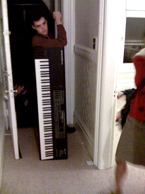 Kurzweil PC2 Gimme my Kurzweil biotch. After a car accident, CW has his body replaced with a keyboard Uploaded with AirMe